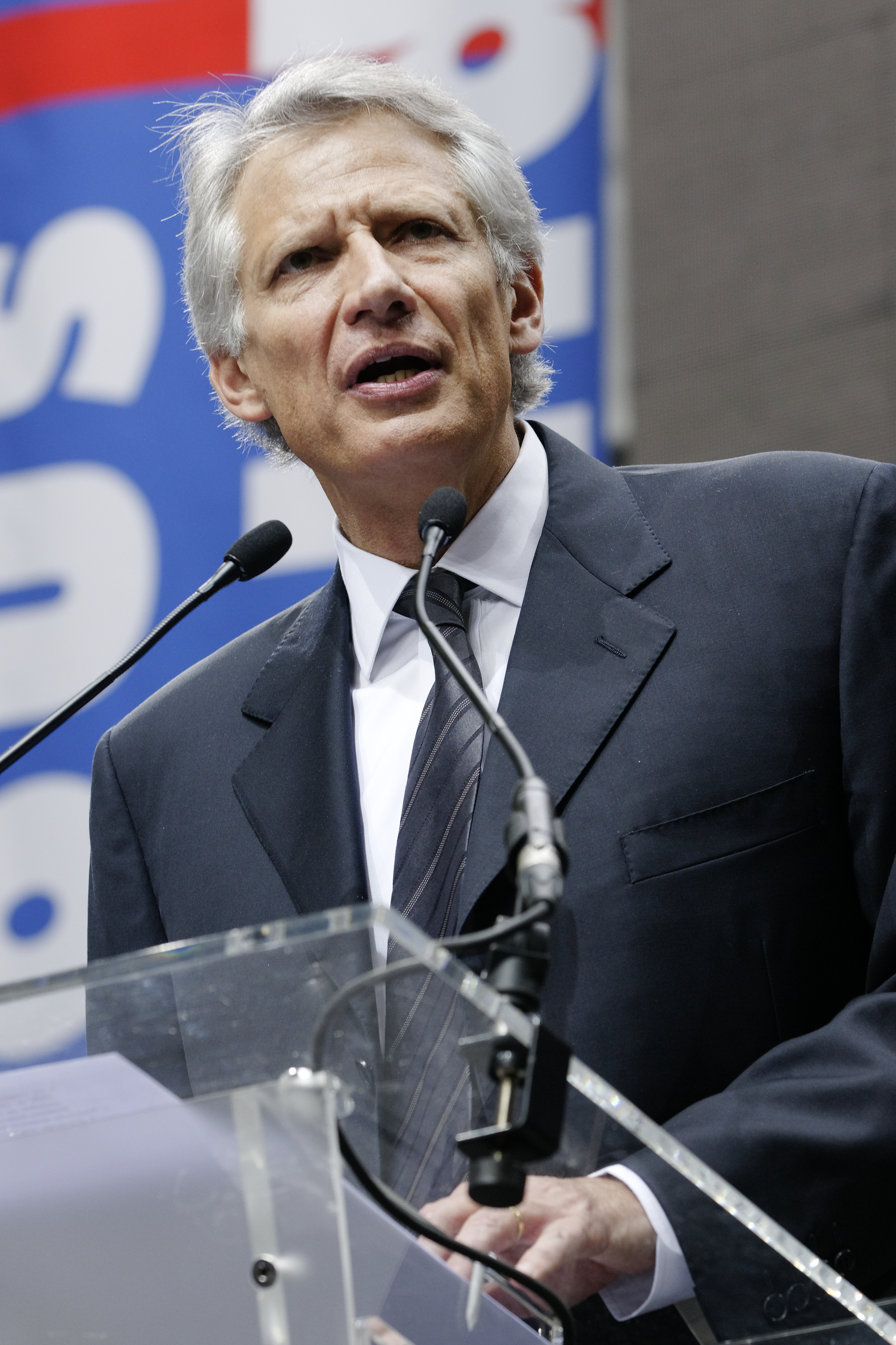 Dominique de Villepin at the launch of his new party, République Solidaire. Paris, Halle Freyssinet.